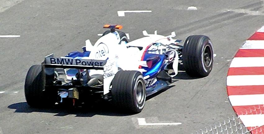 Nick Heidfeld driving for BMW Sauber at the 2008 Monaco Grand Prix.